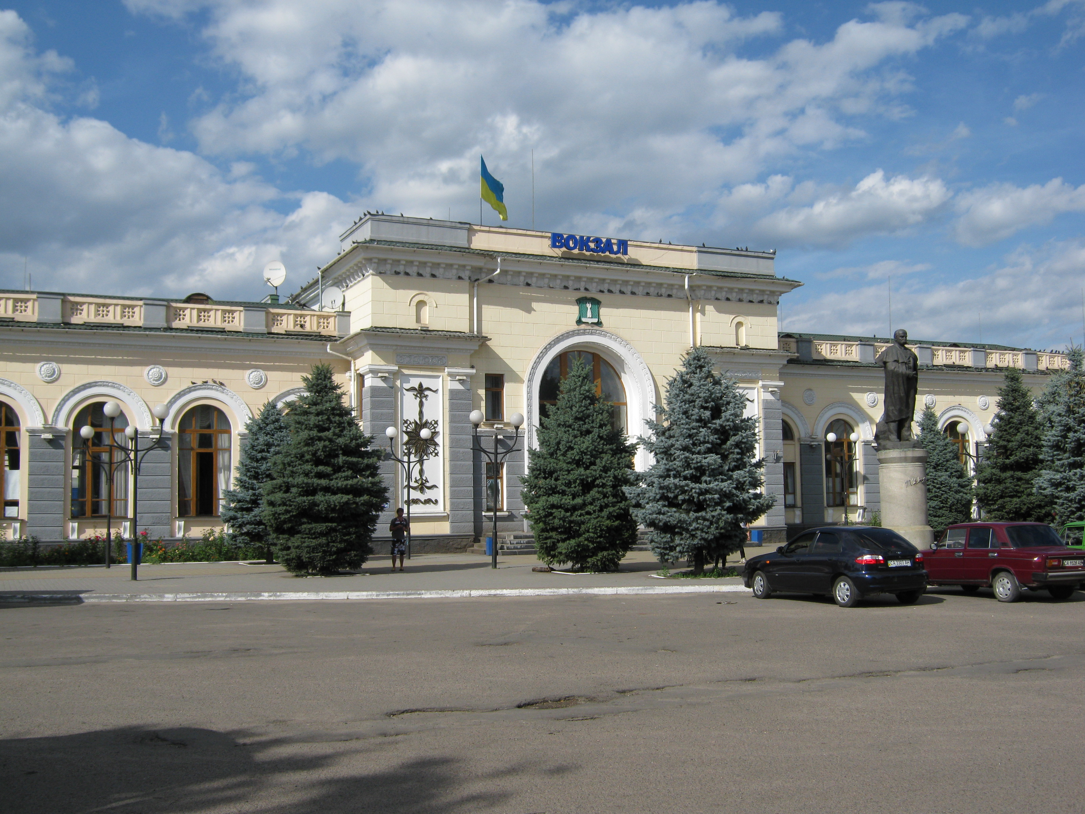 Taras Shevchenko Railway Station